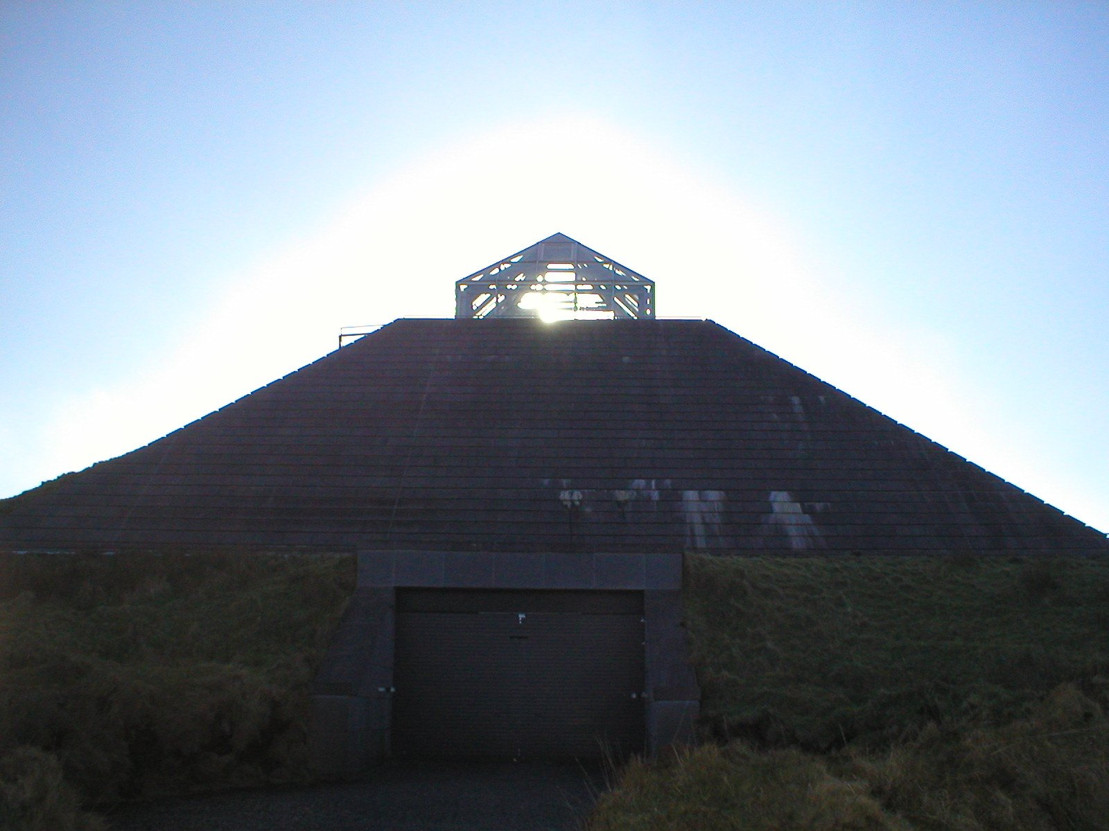 The Céide Fields Visitor Centre at the Céide Fields Neolithic site in Ballycastle, County Mayo, Ireland.